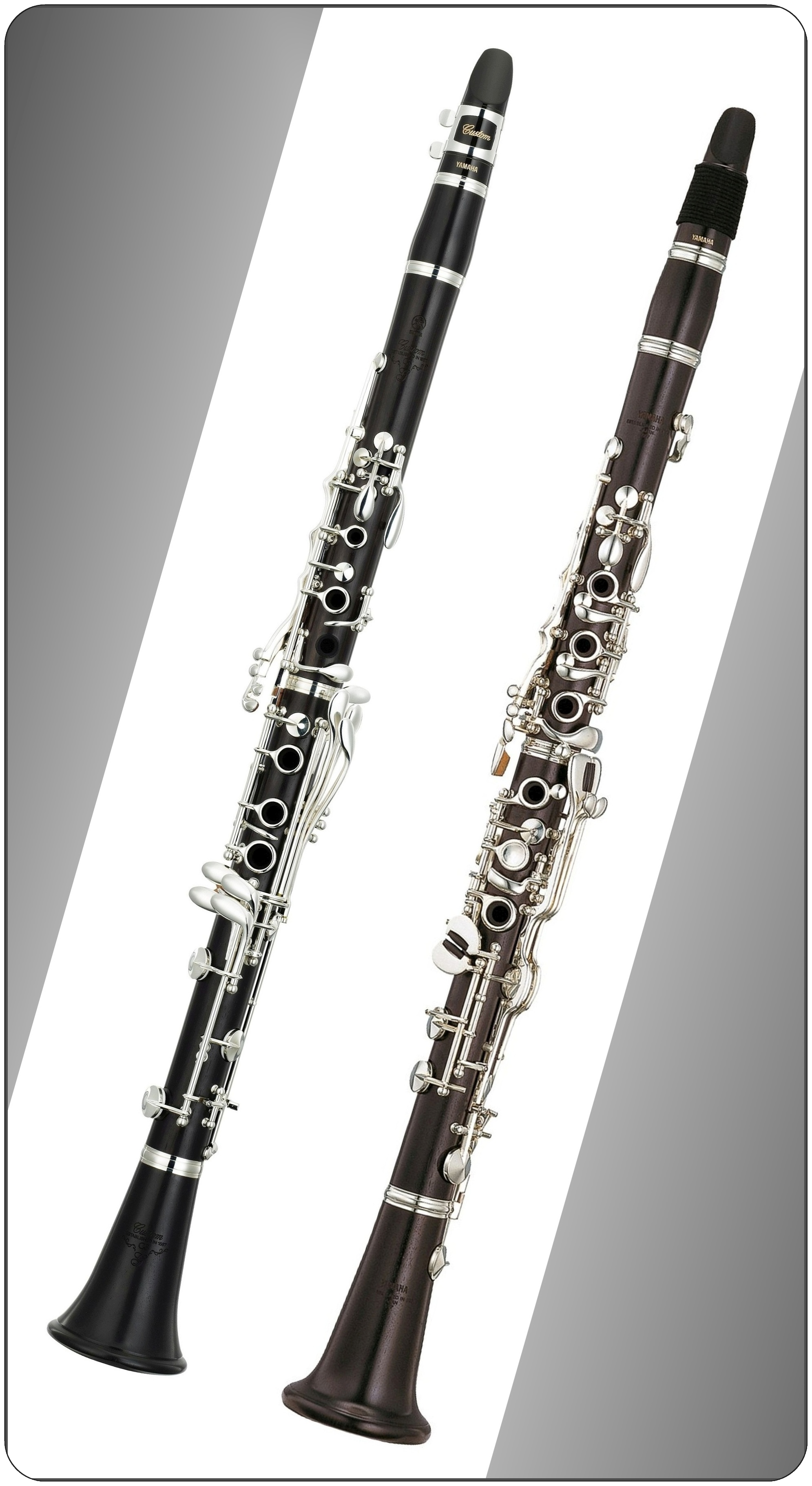 Copmbination of the files Yamaha_Clarinet_YCL_CSGIII.tif und Yamaha_Clarinet_YCL_67_II.tif